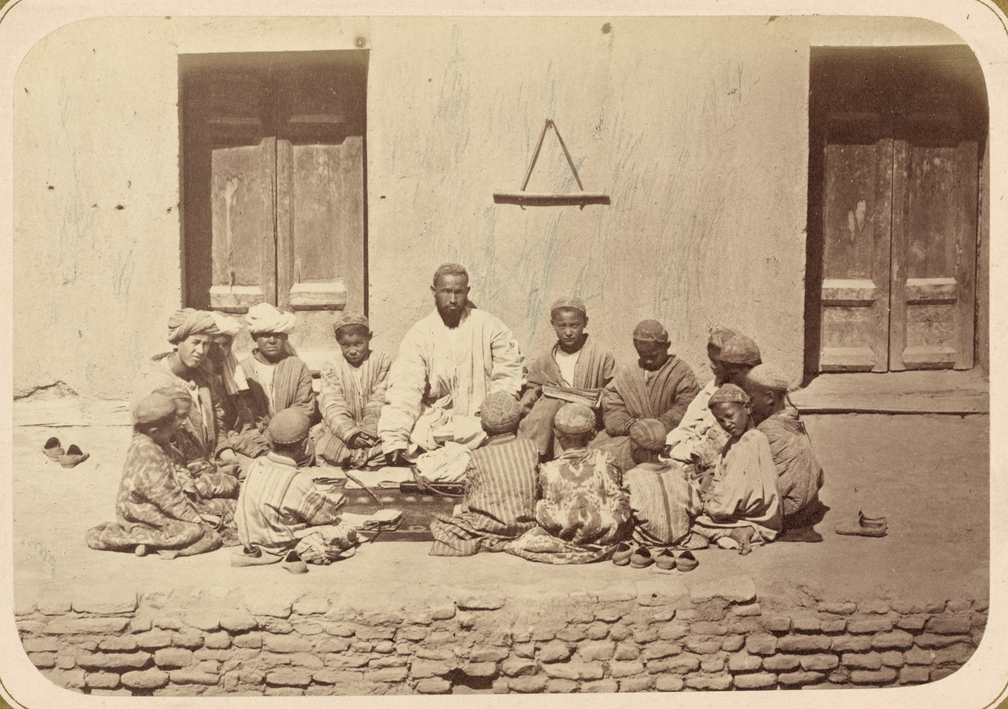 This photograph is from the ethnographical part of Turkestan Album, a comprehensive visual survey of Central Asia undertaken after imperial Russia assumed control of the region in the 1860s. Commissioned by General Konstantin Petrovich von Kaufman (1818–82), the first governor-general of Russian Turkestan, the album is in four parts spanning six volumes: “Archaeological Part” (two volumes); “Ethnographic Part” (two volumes); “Trades Part” (one volume); and “Historical Part” (one volume). The principal compiler was Russian Orientalist Aleksandr L. Kun, who was assisted by Nikolai V. Bogaevskii. The album contains some 1,200 photographs, along with architectural plans, watercolor drawings, and maps. The “Ethnographic Part” includes 491 individual photographs on 163 plates. The photographs show individuals representing the different peoples of the region (Plates 1–33); daily life and rituals (Plates 34–91); and views of villages and cities, street vendors, and commercial activities (Plates 92–163). Boys; Ethnographic photographs; Muslims; Photographic surveys; Schools; Students; Teachers; Turkic peoples